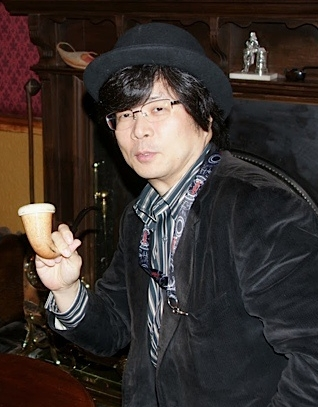 Suzuko Mimori, a voice actress, and Takaaki Kidani, President of the Bushiroad, Inc., visited the Sherlock Holmes Museum in London in 2010.